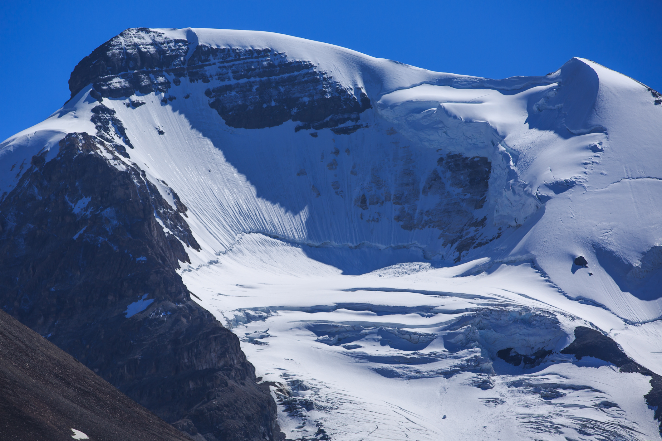 Wilcox Pass trail at the Columbia IcefieldsMt Athabasca (3493m)…Silver Horn route on the right